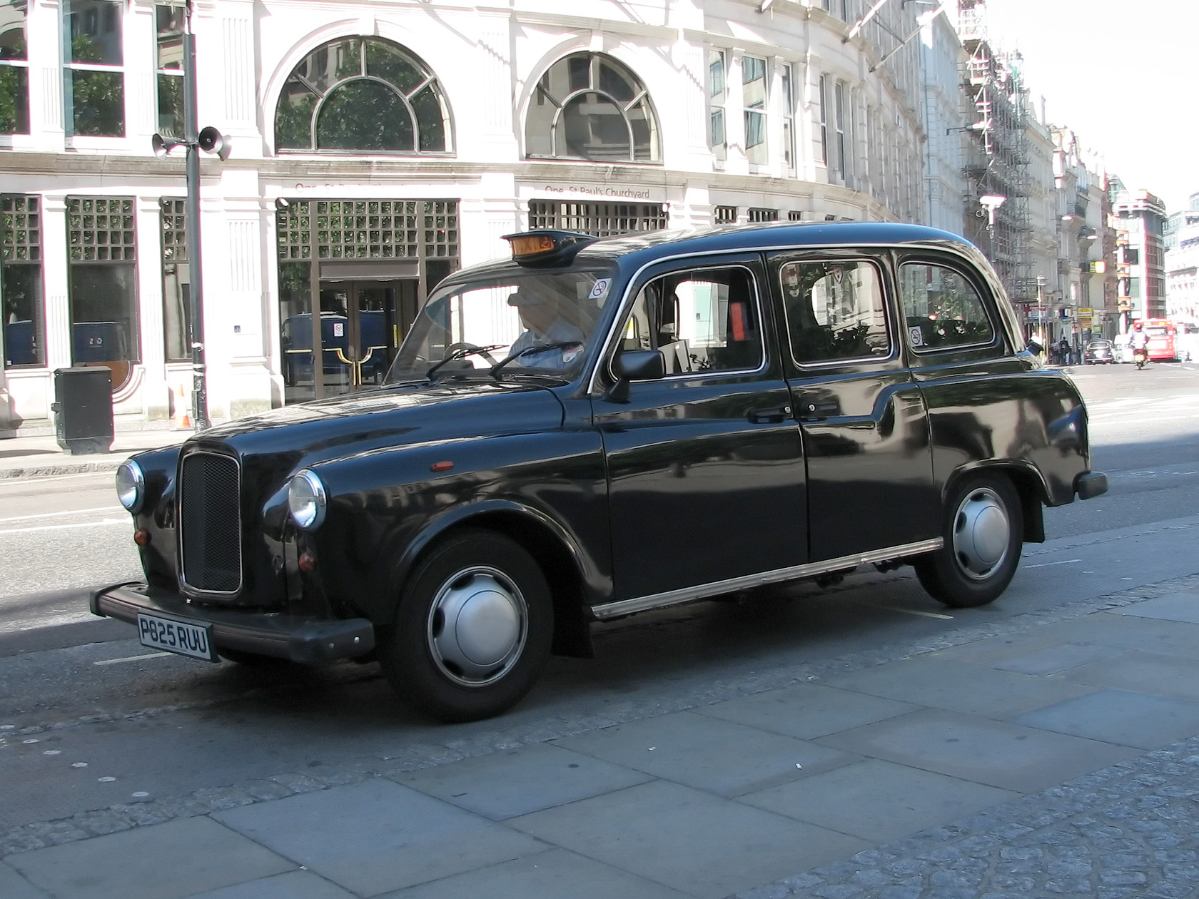 Austin FX4 taxi outside St. Paul's cathedral in London.